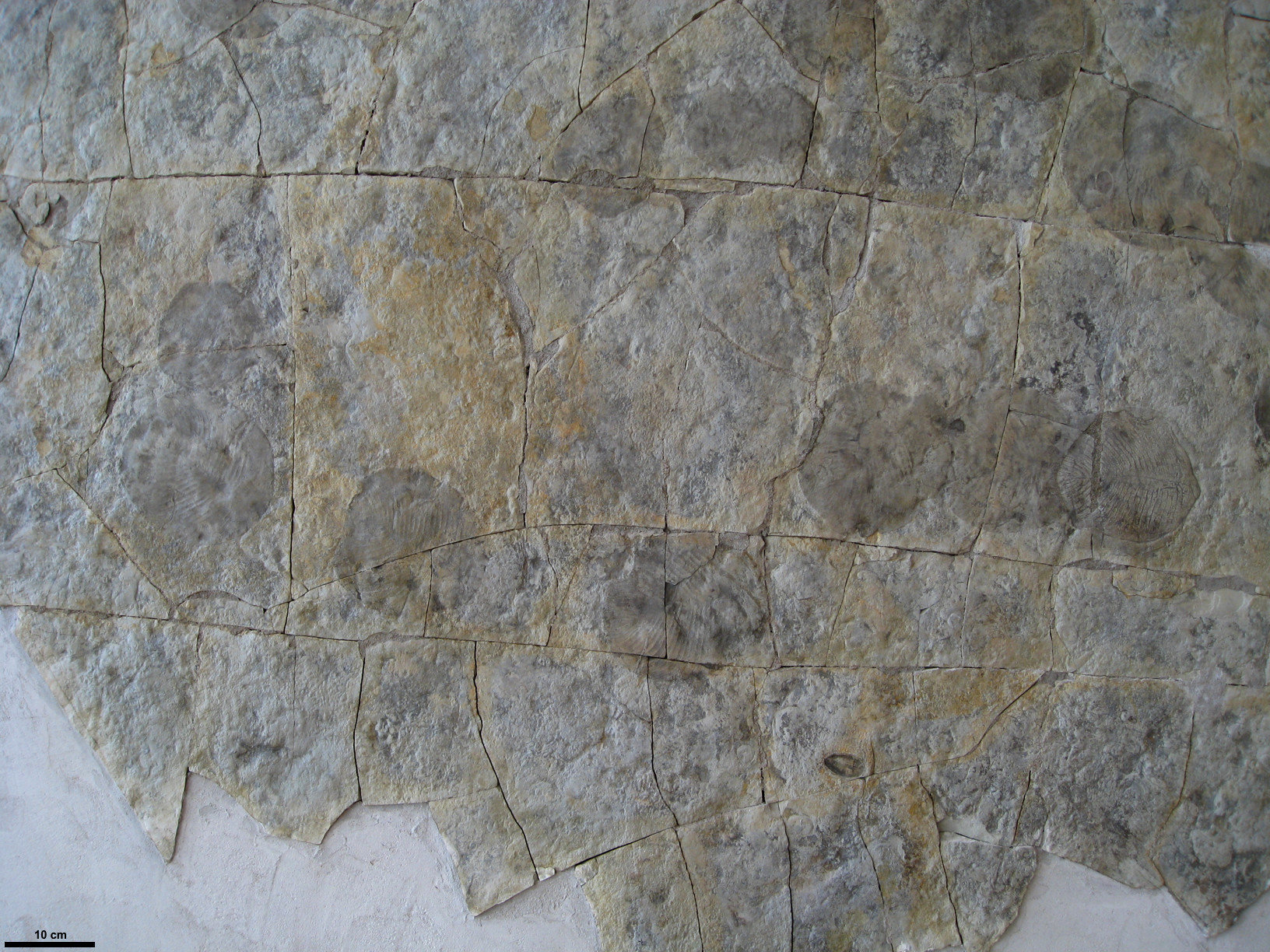 Yorgia waggoneri chain of trace platforms terminate by the body of the animal (right)